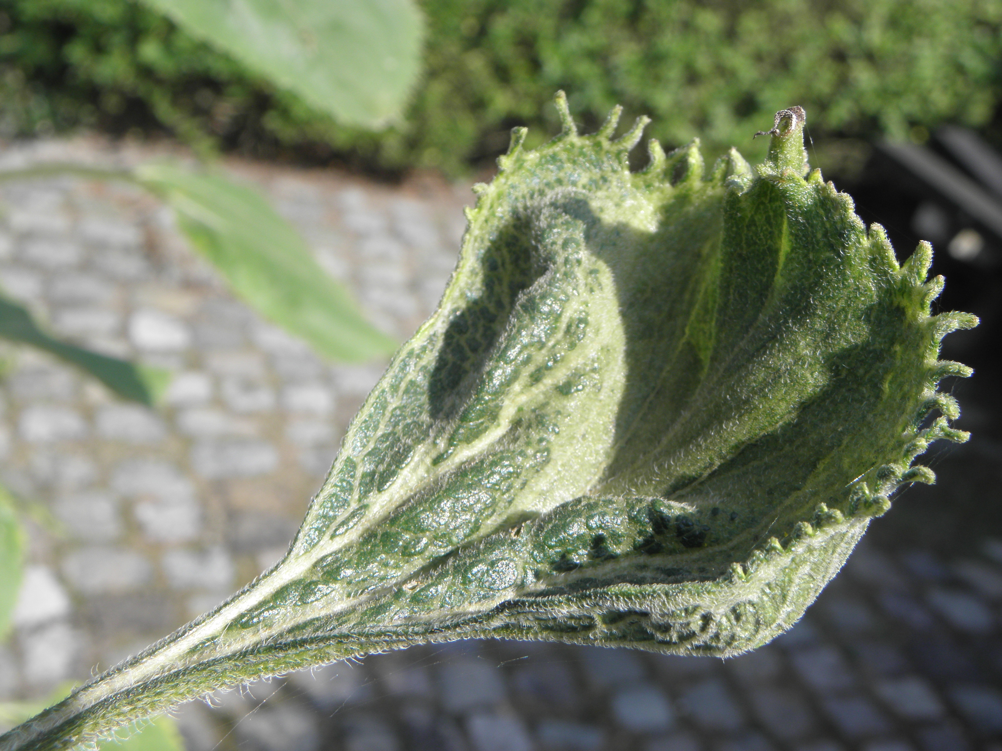 Valse meeldauw